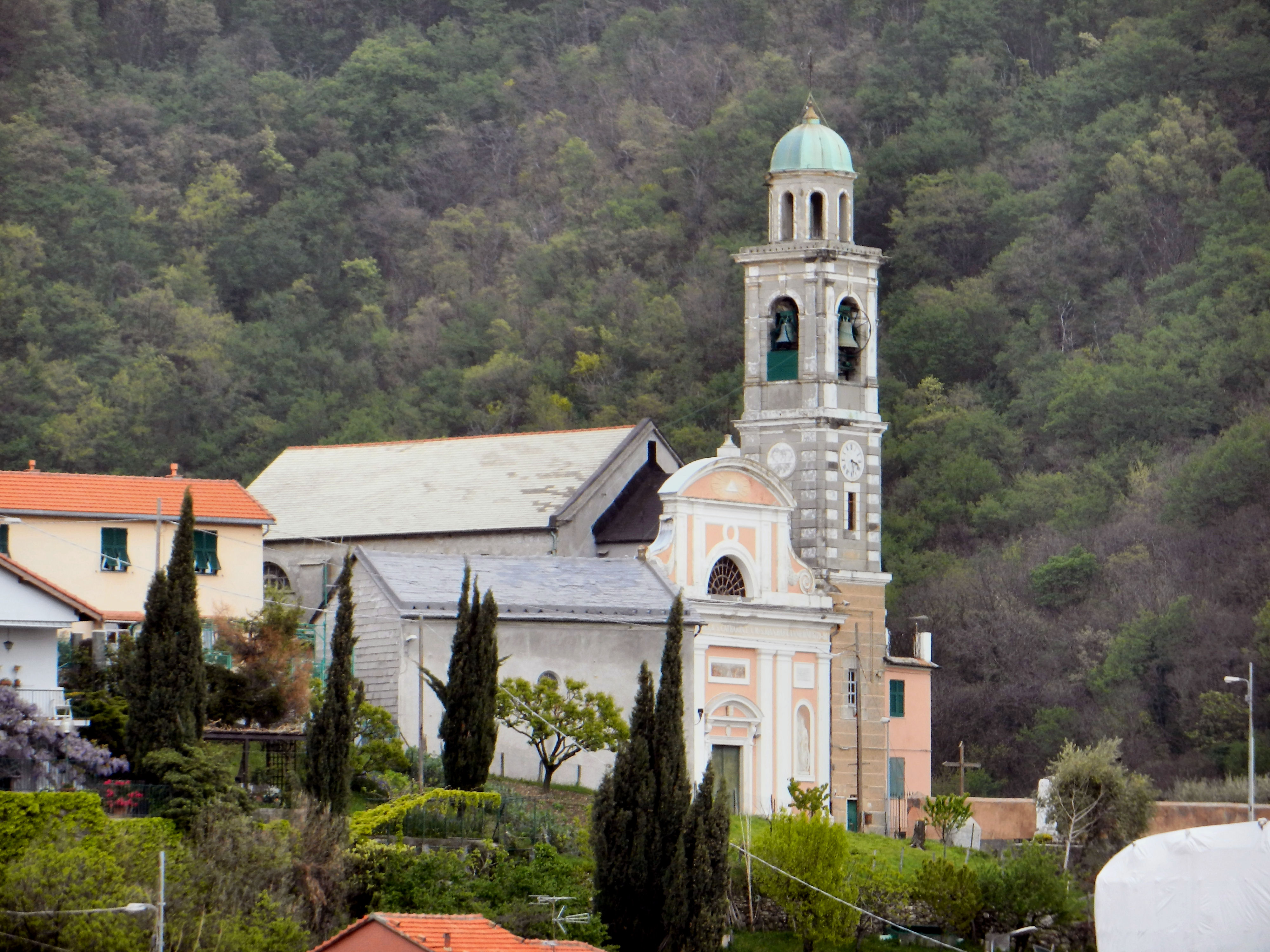 Genoa, Italy, quarter of Rivarolo, the church of St. Catherine at Begato